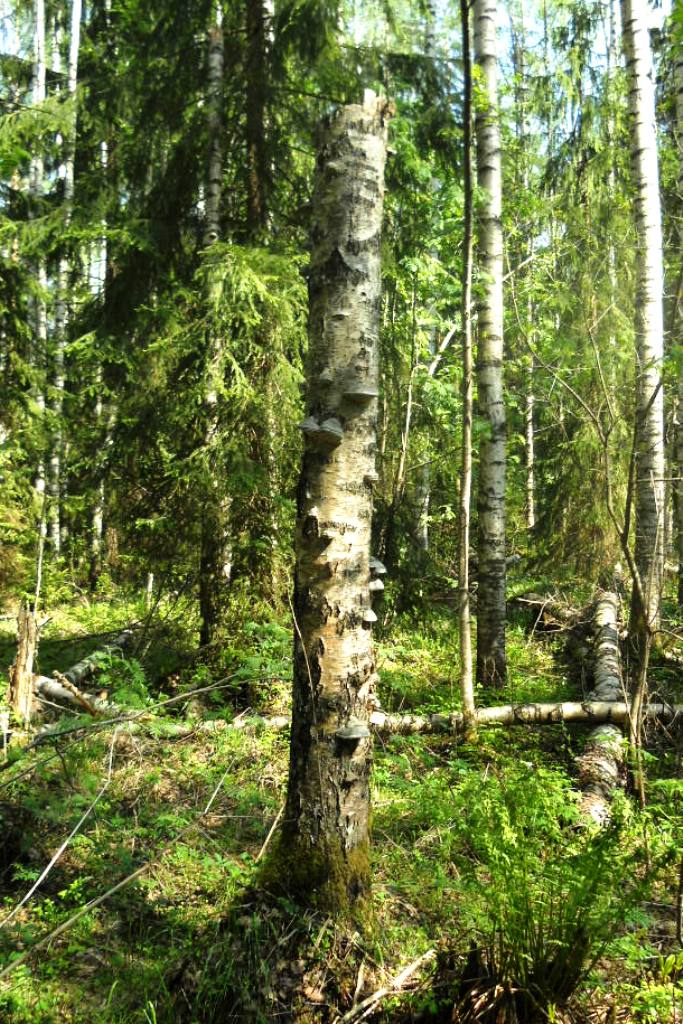 Betula stub